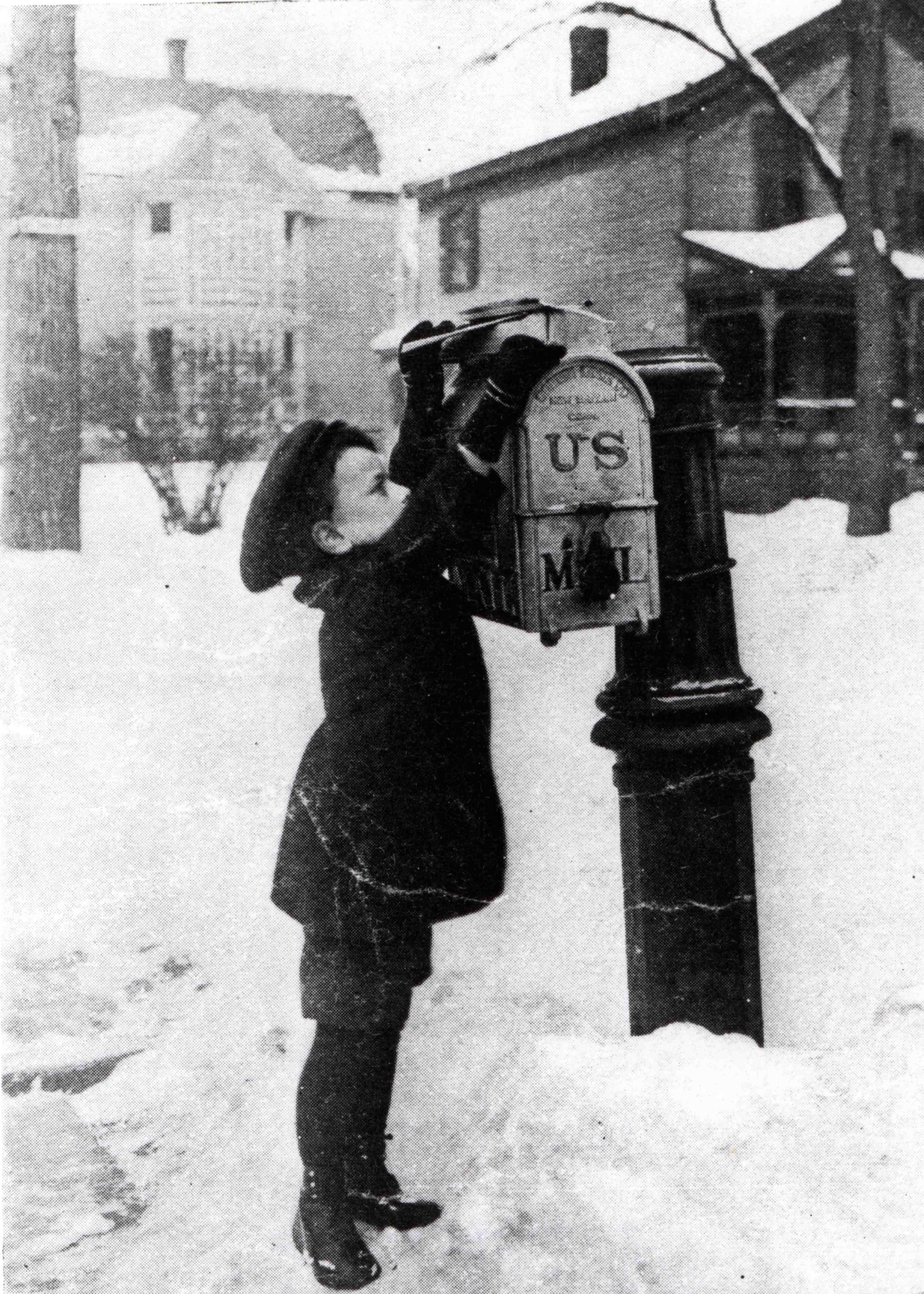 Description: Young boy does his best to put his letters into a Doremus-style mailbox. Mailboxes of this type, designed by Willard D. Doremus, were not very strong. The lip covering the letter slot could too easily break, letting rain, or in this case, snow, into the mailbox. Creator/Photographer: Unidentified photographer Medium: Black and white photographic print Culture: American Geography: USA Date: c. 1880 Repository: National Postal Museum Collection: U.S. Mailboxes Accession number: A.2008-46